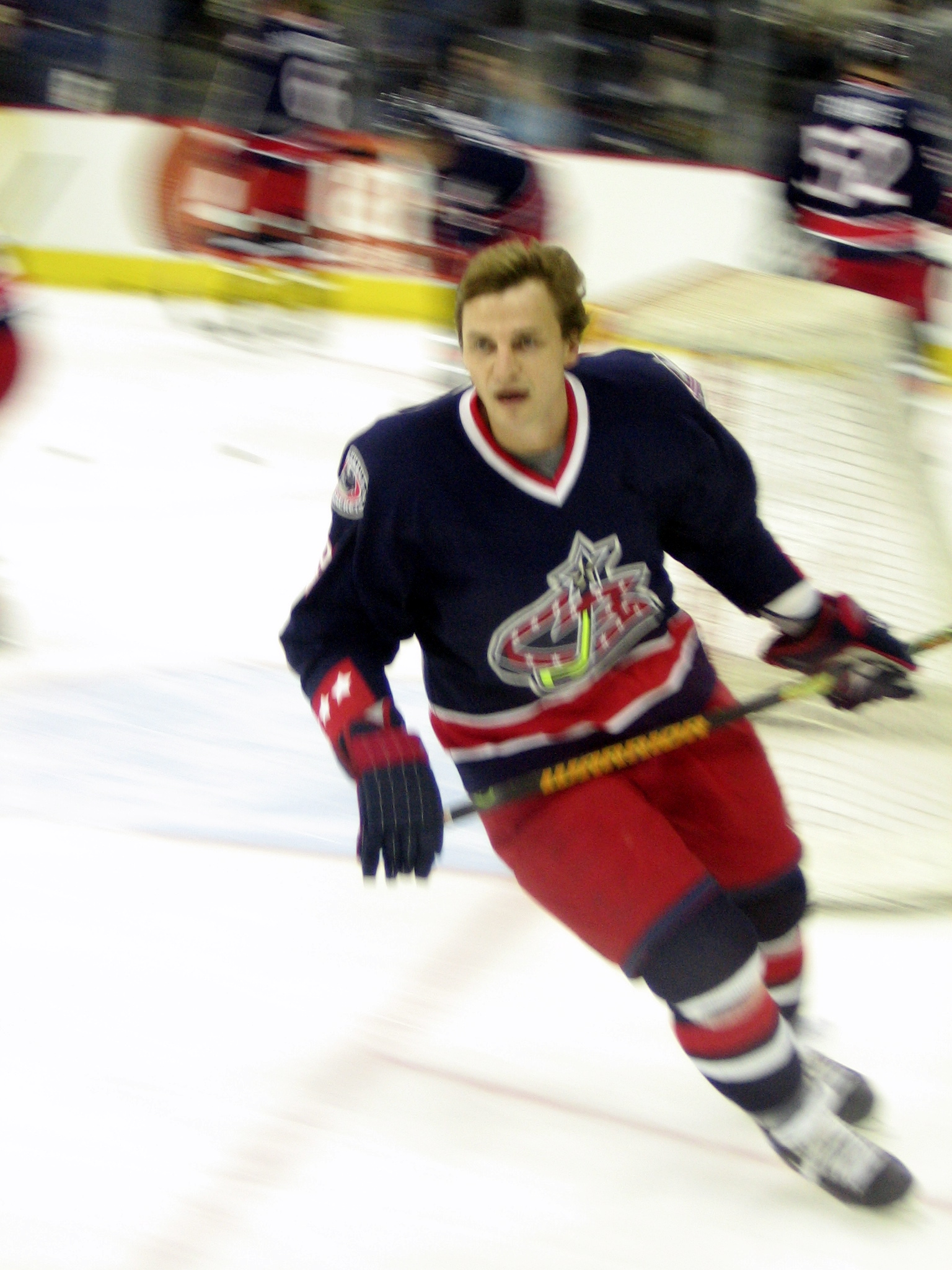 Sergei Fedorov, russian ice hockey player, Taken before the Blue Jackets' December 22, 2006 game against Vancouver.